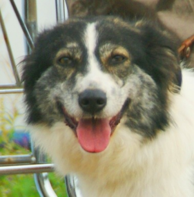 Atlas Mountain Dog's head